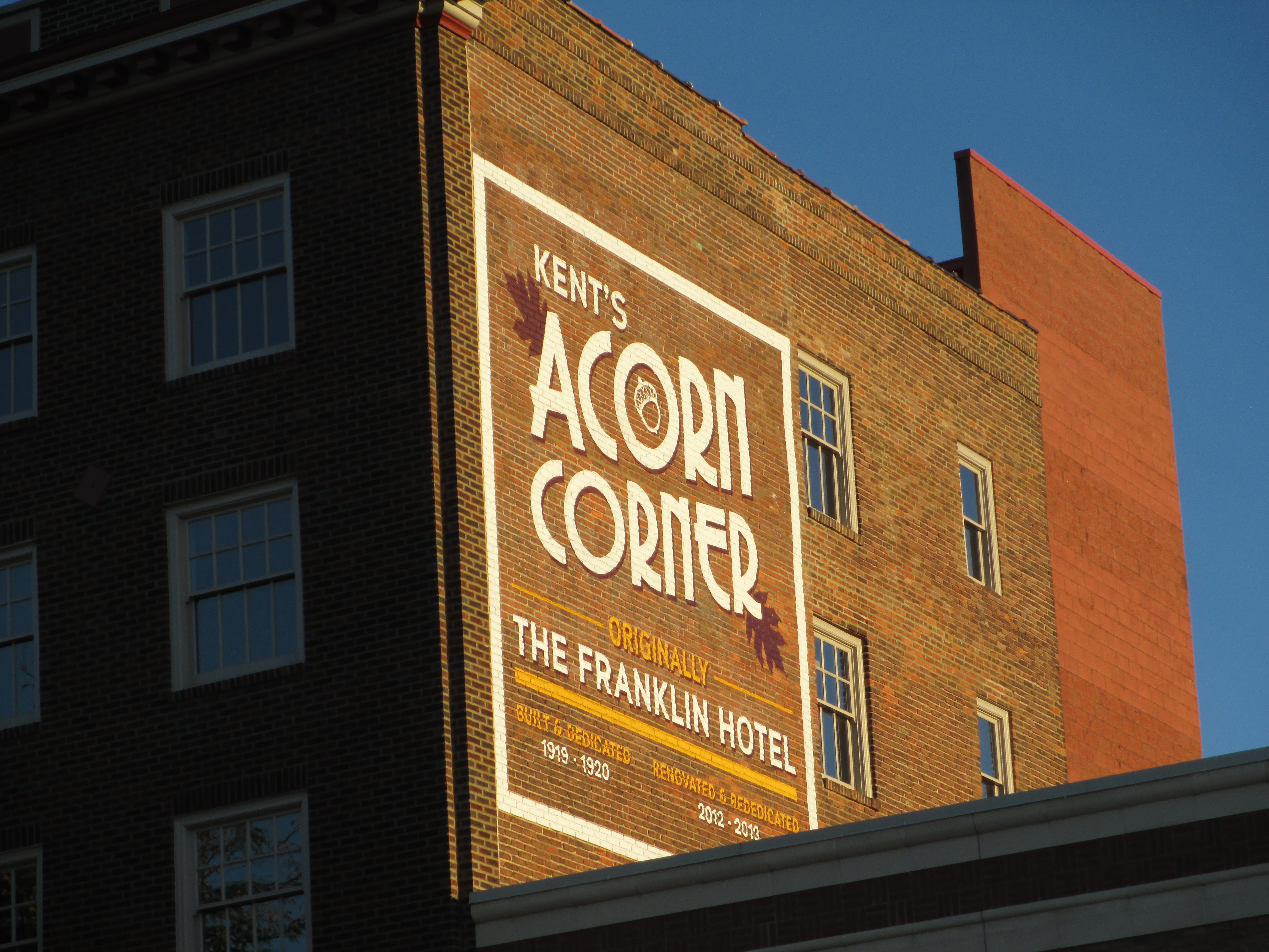 Closeup view of the sign on the western facade of Acorn Corner, historically known as the Franklin Hotel, in downtown Kent, Ohio, United States.